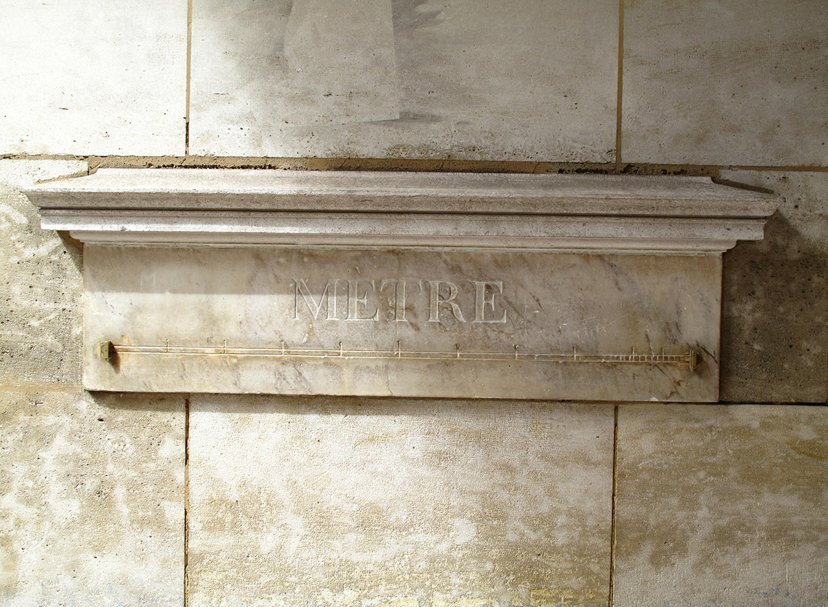 Copy of the first metre standard, sealed in the foundation of a building, 36 rue de Vaugirard, Paris